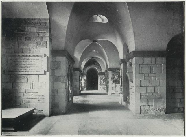 Near the eastern end of the South Aisle of the Crypt, under a very simple tomb, lie the mortal remains of the great Architect of the Cathedral. On a black marble slab, part of which is seen in the picture, are the following words:—Here lieth Sir Christopher Wren, Kt., the builder of this Cathedral Church of S. Paul, &c., who dyed in the year of our Lord MDCCXXIII, and of his age XCI. A singularly modest epitaph for so great a man, and that, too, at a period when fulsome phrases abounded. A little westward of the tomb, on a tablet affixed to the wall, are the memorable words, admirable in their brevity and point:—Lector, si monumentum requiris, circumspice. The tomb itself, including the black marble slab, is only sixteen-and-a-half inches in height. Closely adjoining the tomb, on its northern side, are buried two eminent presidents of the Royal Academy, Sir Frederick Leighton and Sir John Millais; at the extreme distance are seen, on the left side the bust of Sir John Alexander Macdonald, late Premier of the Dominion of Canada; and on the right side, that of Sir Henry Smith Park, Minister Plenipotentiary in Japan and China. Nearer to the spectator, on the right, is the memorial to Archdeacon Claughton, Bishop of Colombo, whilst on the left, is dimly seen a monumental brass, commemorating the Special Correspondents who fell in the Campaign in the Soudan; opposite to which, on the right, is the bust of the painter, James Barry.